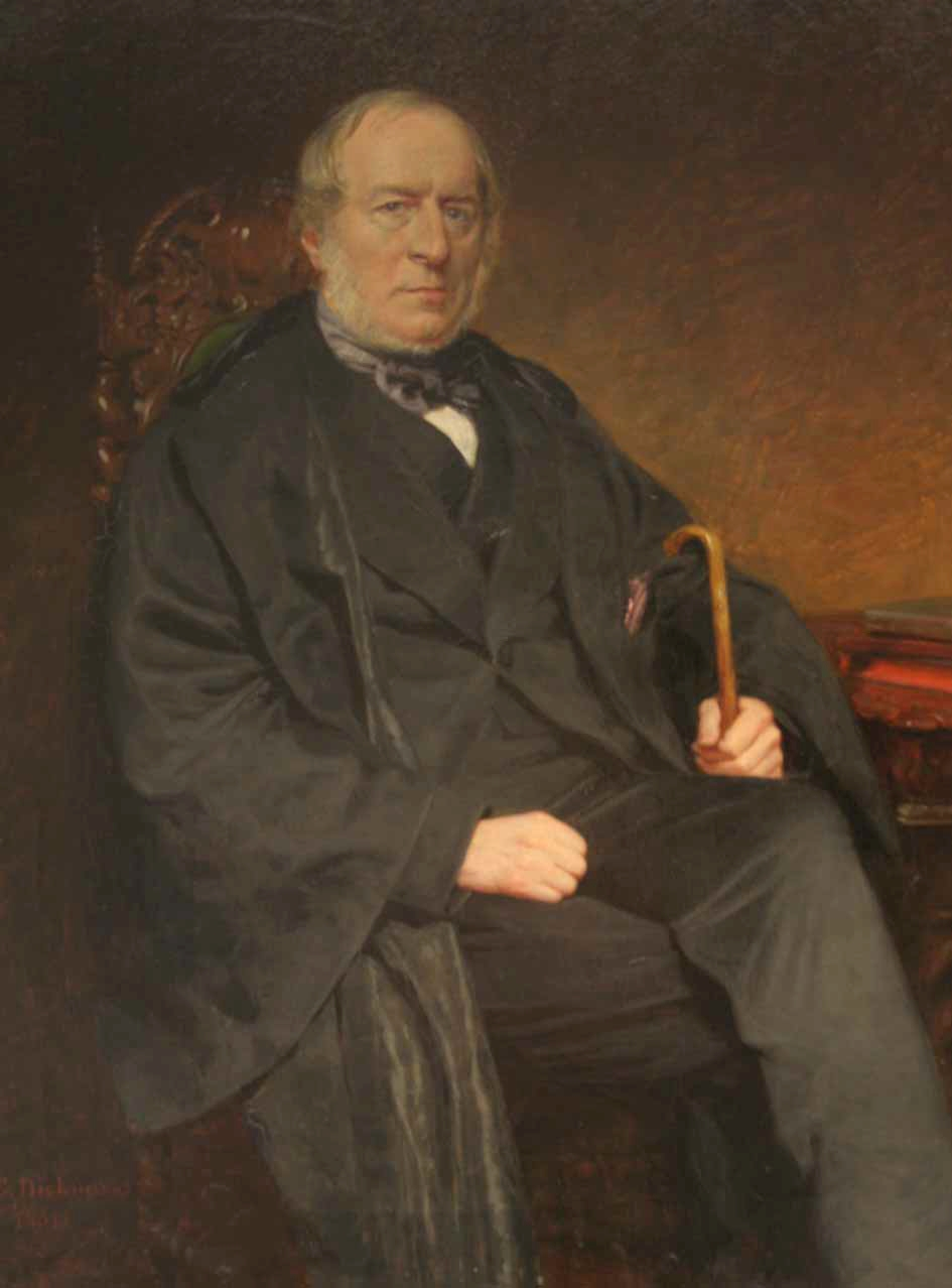 Reverend Frederick William Hope (1797–1862), painted by Lowes Dickinson (1819–1908). Portrait presented to Oxford University by Mrs Hope in 1864